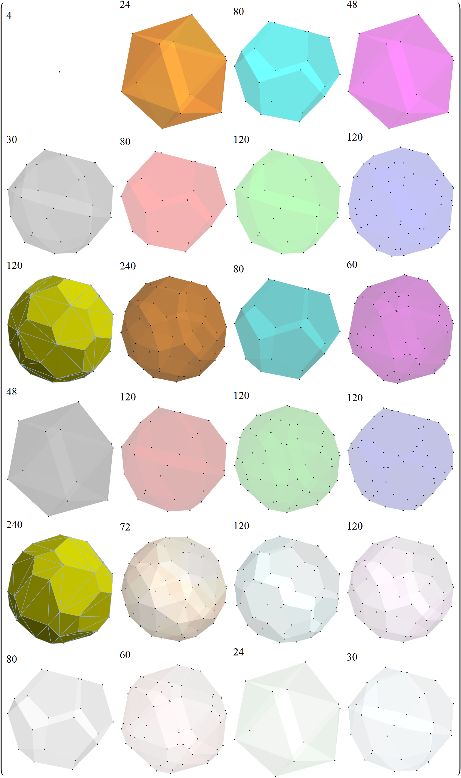 3D visualization of the E8 1_42 polytope with 2160 vertices showing 24 concentric hulls grouped by Norm'd distances from the origin from inner to outer varying opacity. This shows Platonic solid related structures and vertex count. The projection basis vectors are icosahedral giving H3 symmetry: u = (1, φ, 0, −1, φ, 0,0,0)v = (φ, 0, 1, φ, 0, −1,0,0)w = (0, 1, φ, 0, −1, φ,0,0) For more information, see [1]